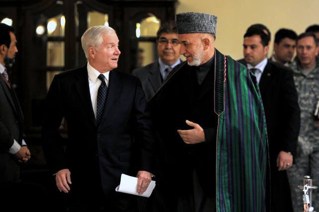 Defense Secretary Robert M. Gates and Afghanistan President Hamid Karzai walk to a press conference following their defense talks in Kabul, Afghanistan, March 7, 2011.